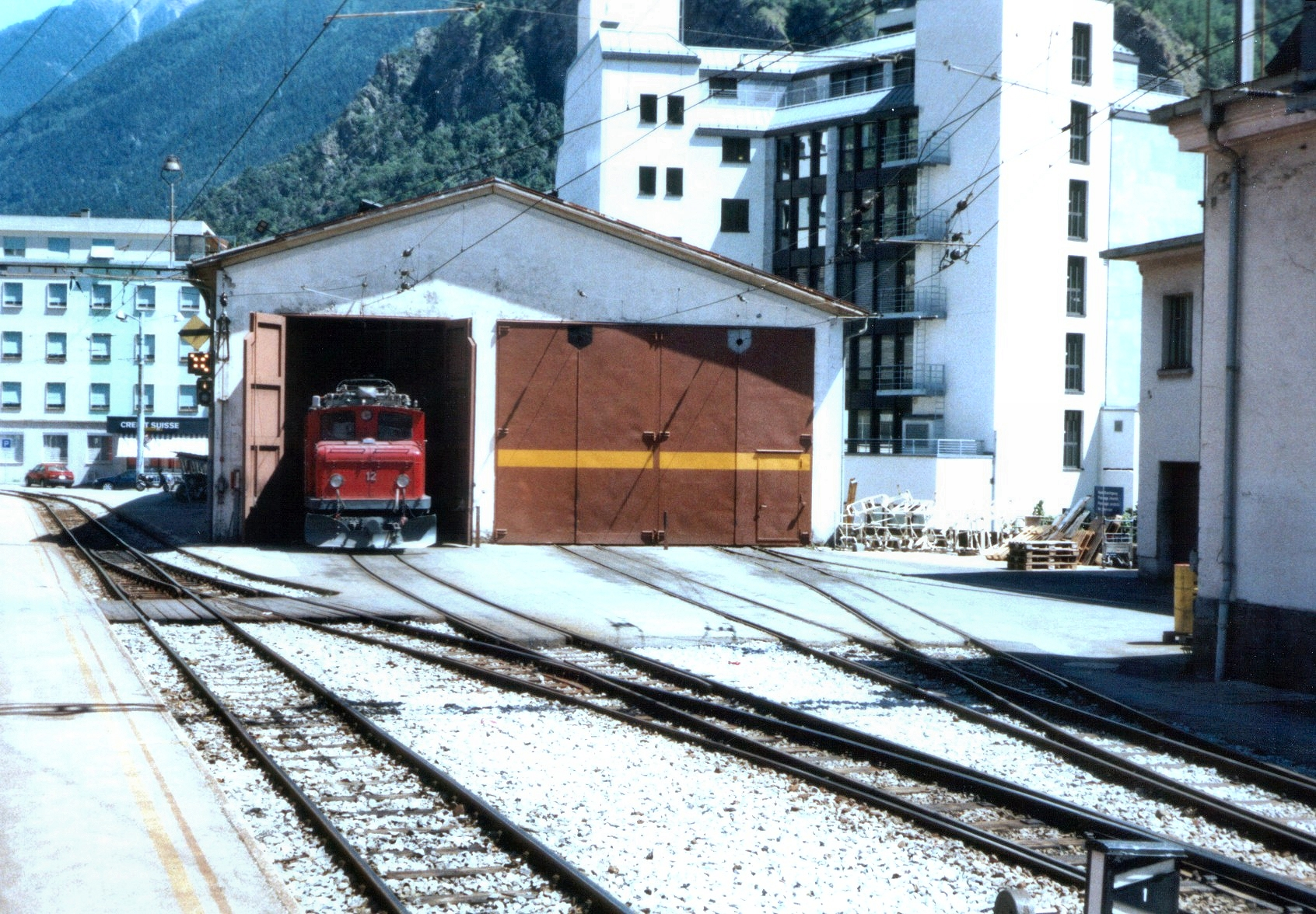 HGe 4/4 I No. 12 at Visp Depot, Summer 2002. Created and uploaded by Philipp Groß.